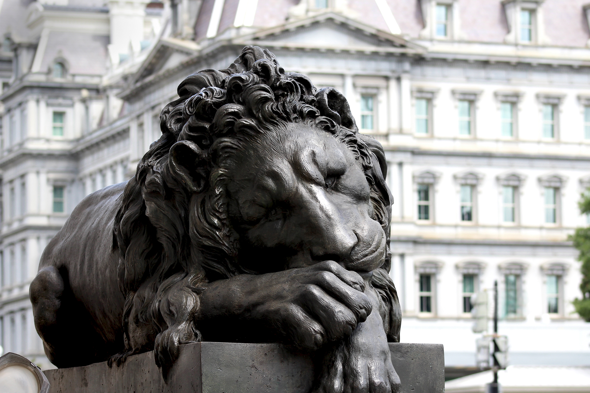 One of the two Canova Lions at the Corcoran Gallery of Art - Pictured in front of the Eisenhower Executive Office Building, 2017